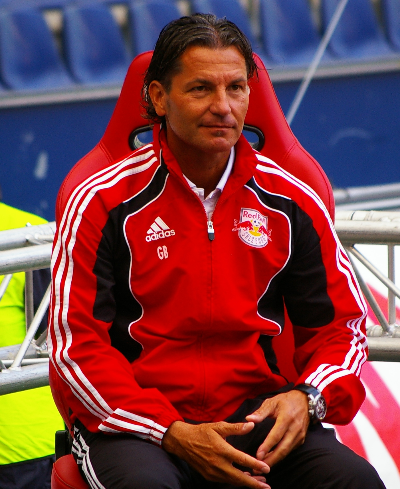 coach Red Bull Juniors